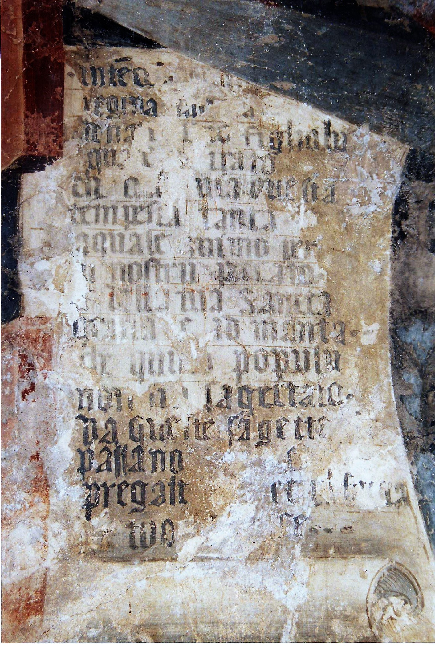 Cartouche with old prayer